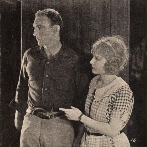 Still from the American western film The Last Trail (1921) with Maurice 'Lefty' Flynn aka Maurice Bennett Flynn and Eva Novak, on page 60 of the August 27, 1921 Exhibitors Herald.